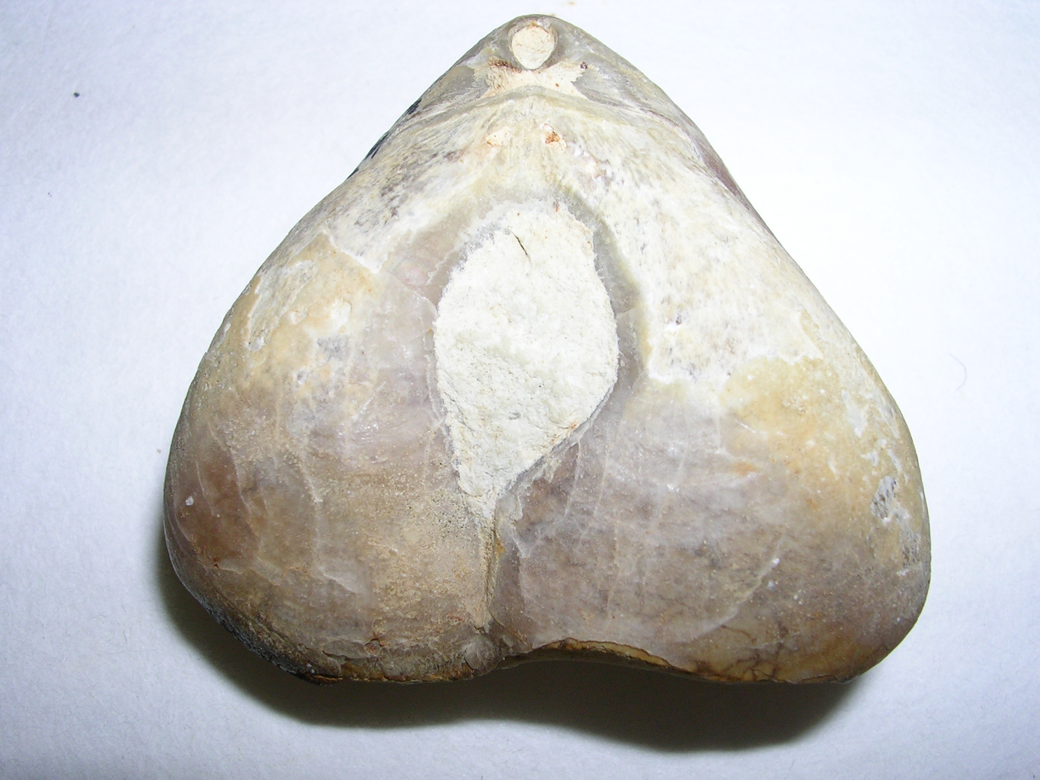 Pygope diphya fossil (Early Cretaceous) founded in Murcia, in a laboratory of practices of the Faculty of Sciences of the University of Corunna.